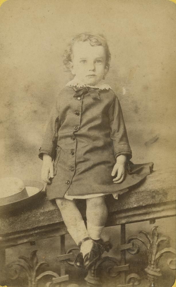 John Dudley Lavarack, circa 1887. He later become Governor of Queensland.